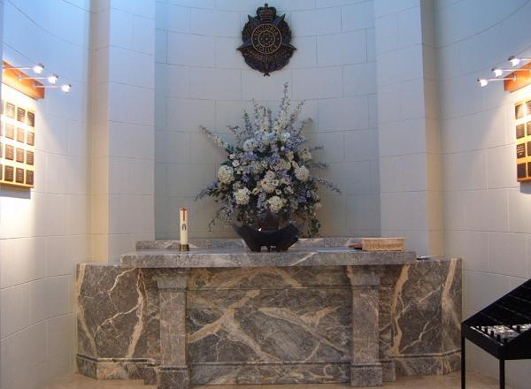 Chapel of Remembrance, within the main Chapel of the Victoria Police Academy, Glen Waverley, in the eastern suburbs of Melbourne, Victoria, Australia.